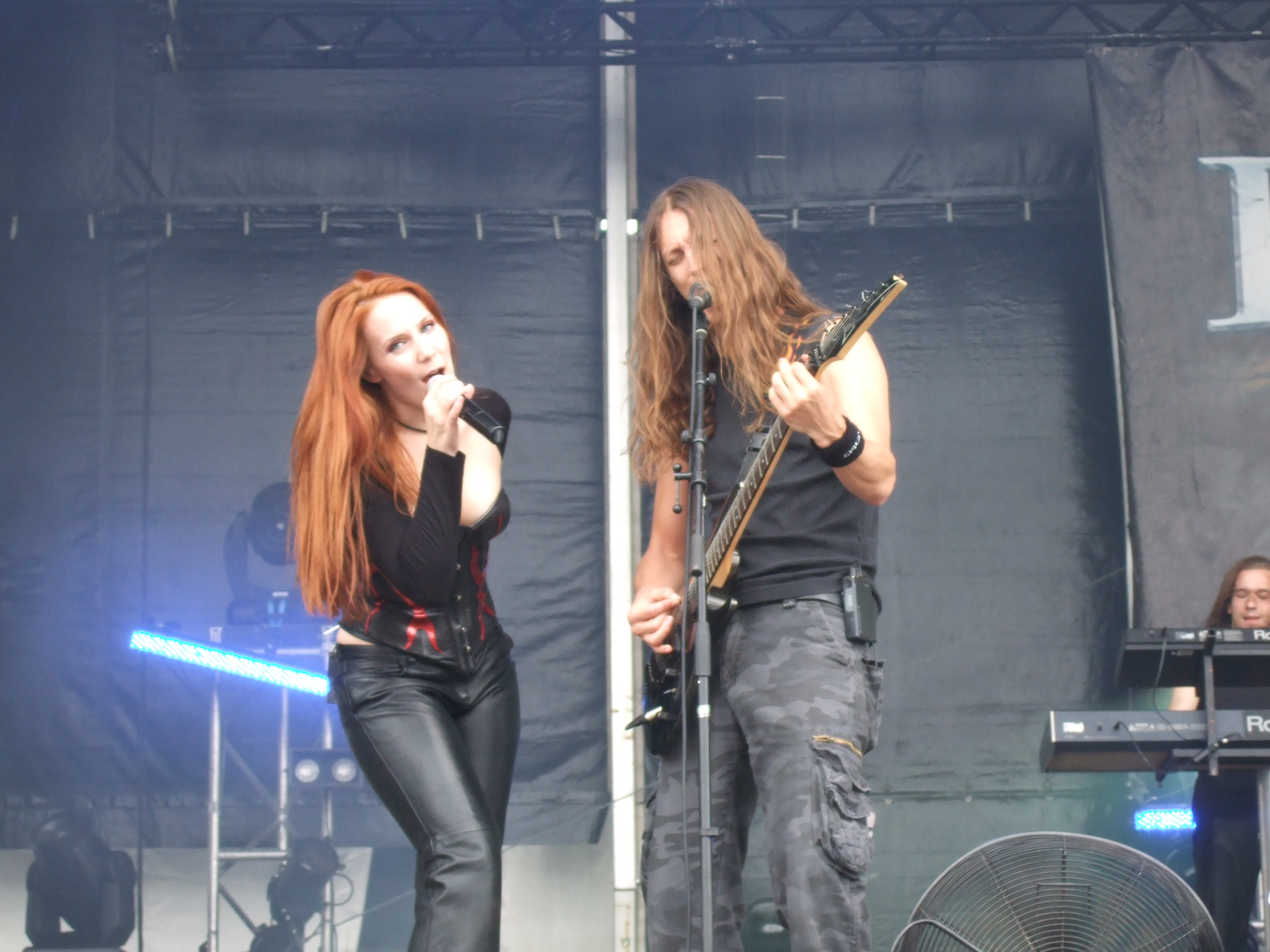 Epica at Hellfest Summer Open Air 2007.